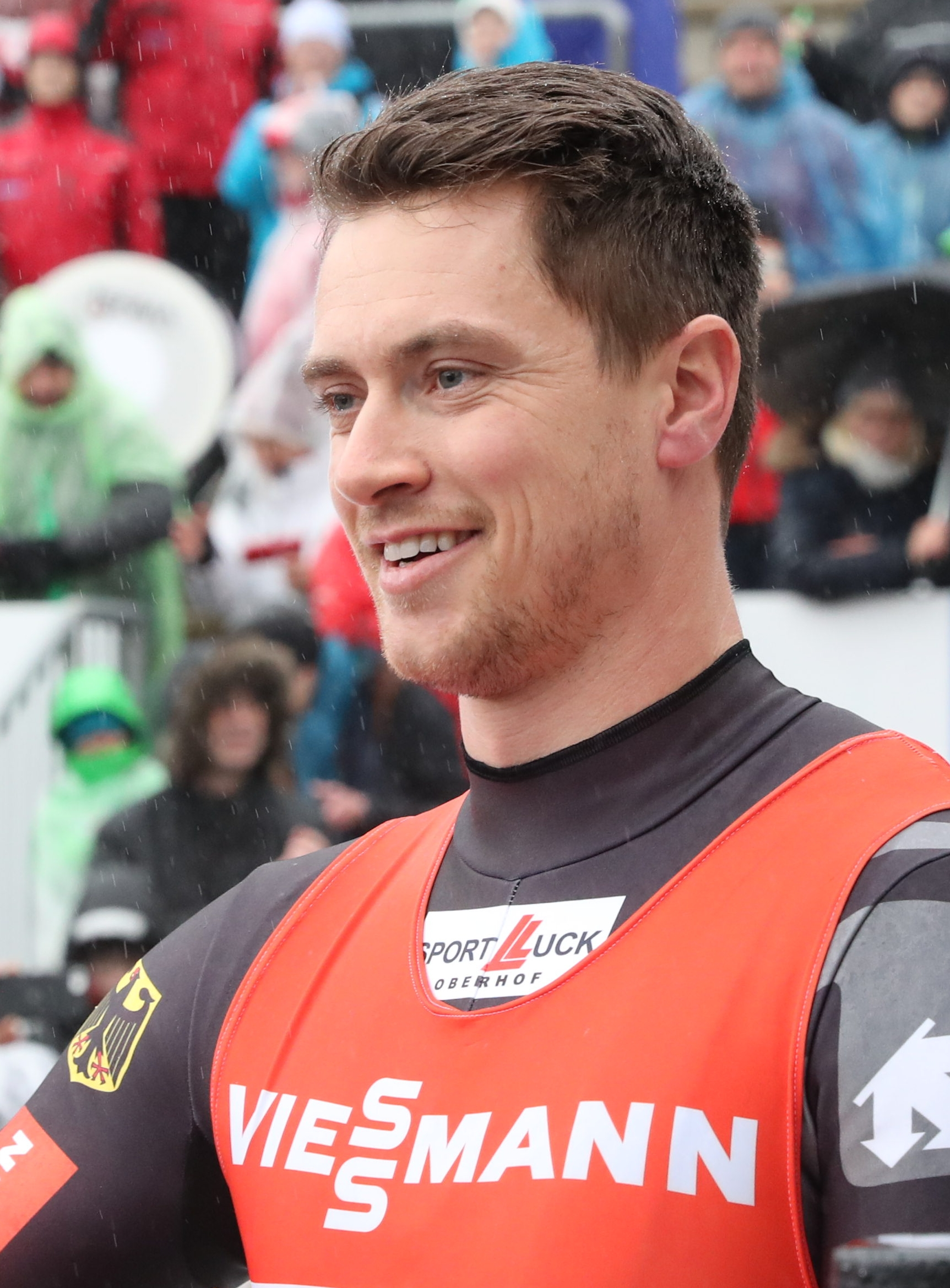 Team Relay World Cup at the 2019/20 Oberhof Luge World Cup